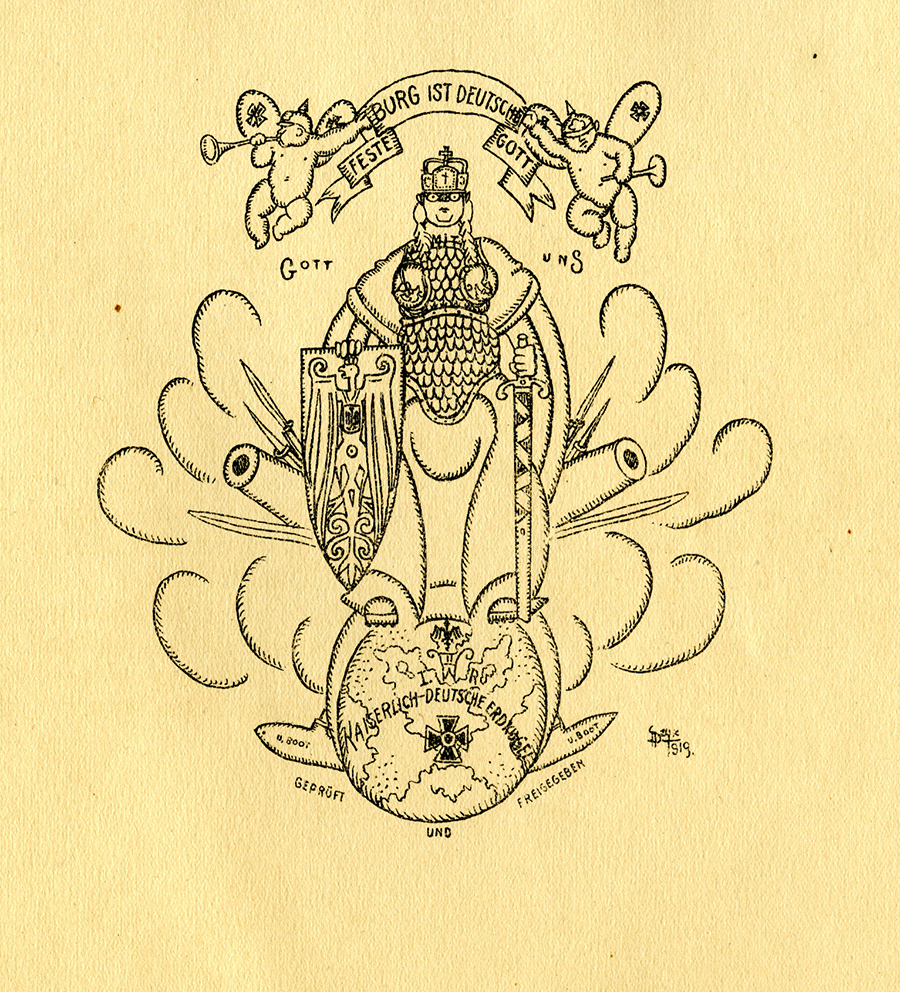 Arthur Szyk, together with the poet Julian Tuwim, created the 1919 book Rewolucja w Niemczech [Revolution in Germany], an illustrated story of a mentally and spiritually skewed German nation lunging towards a nonsensical revolution. This image of a Valkyrie mocks the German fascination with and appropriation of Norse mythology.